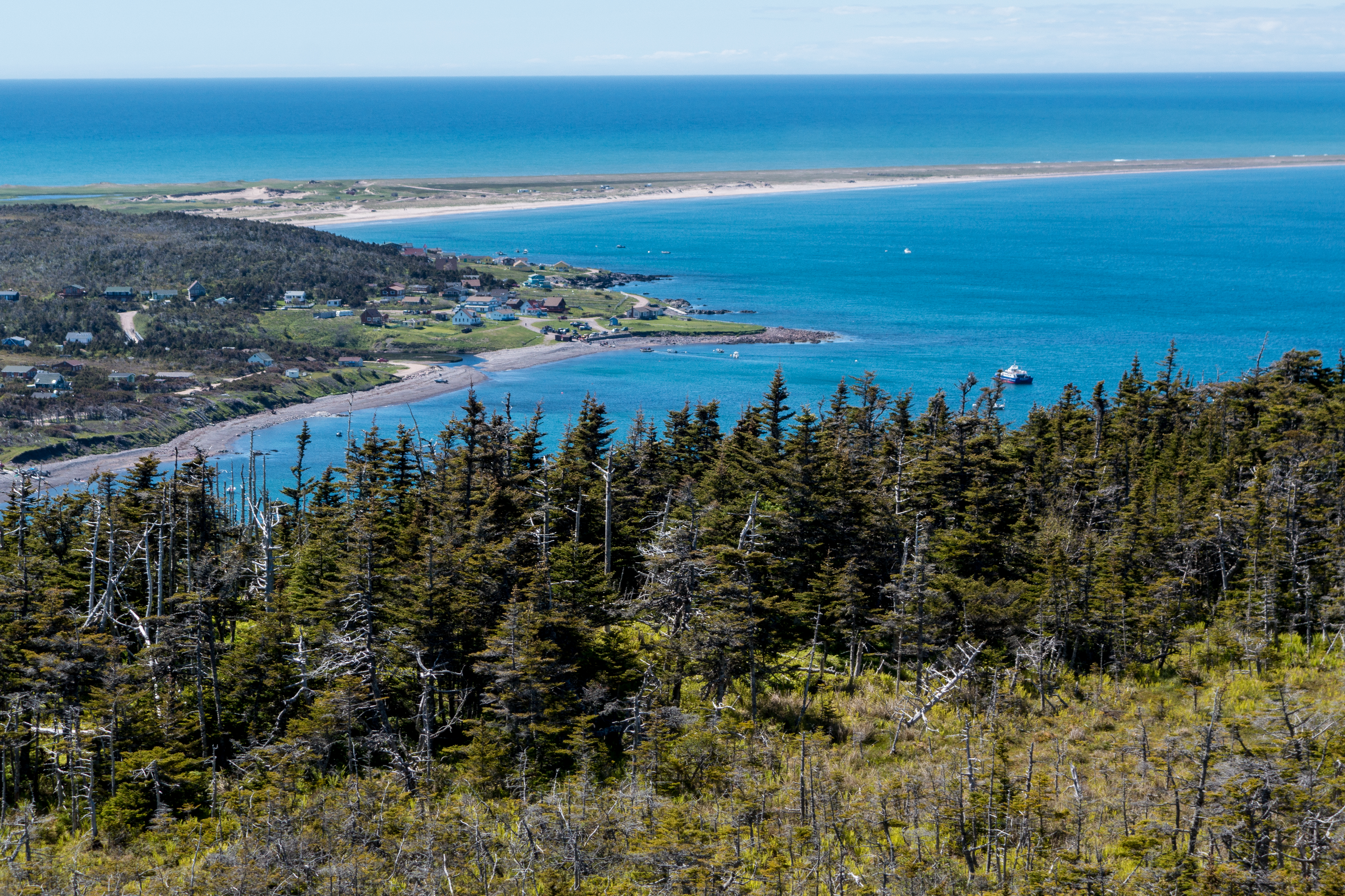 Governor Bay in Langlade island (French territory of Saint-Pierre-et-Miquelon)